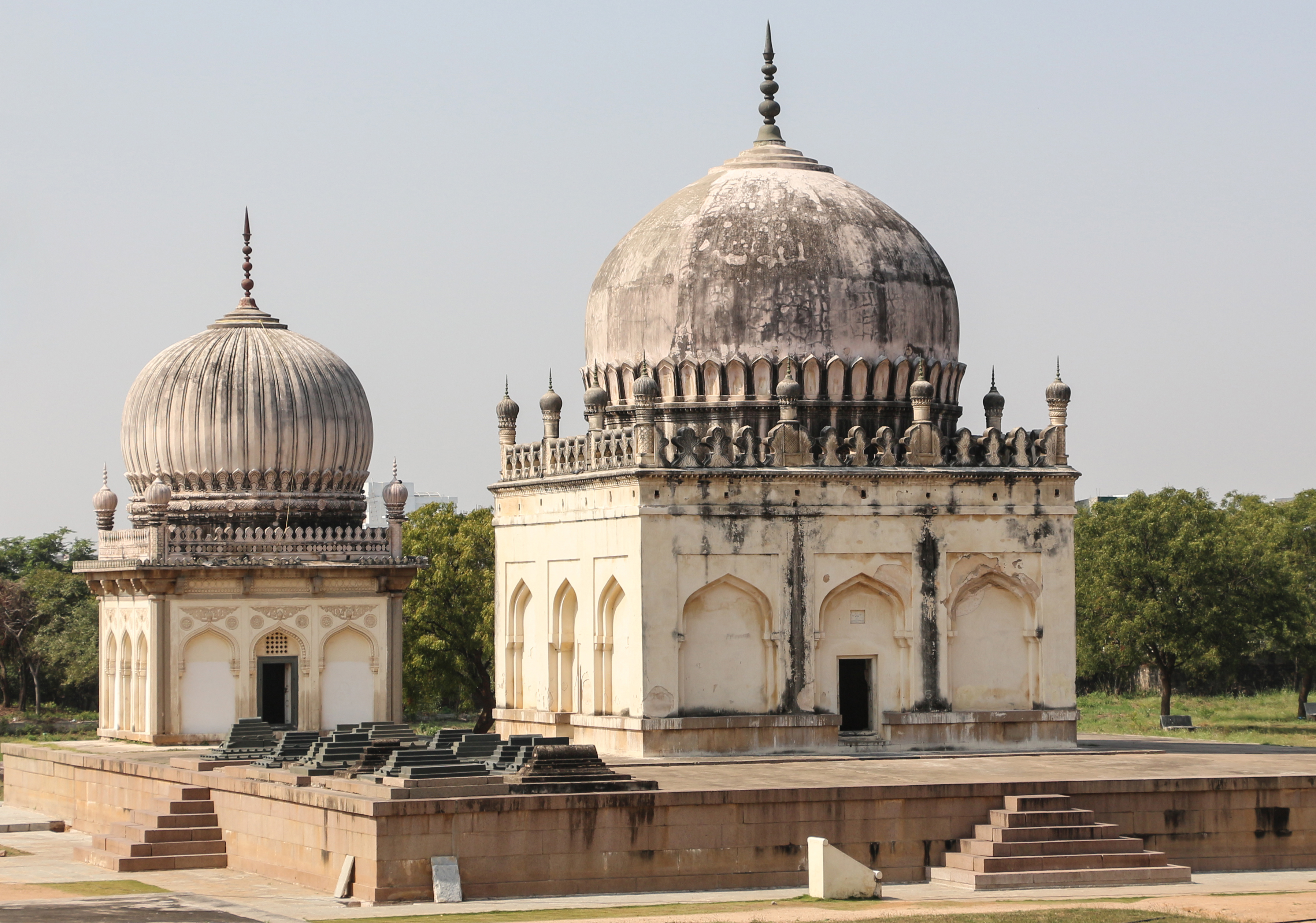 Tombs of Sultan Quli Qutb Shah and Subhan Kuli Qutb Shah, Hyderabad, India